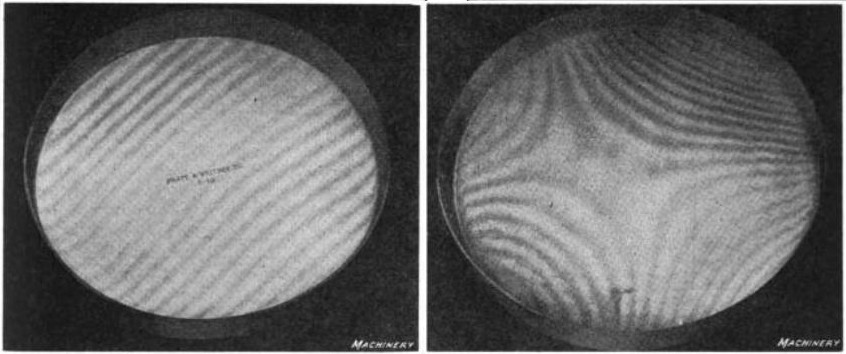 Photos of two glass optical flats testing the flatness of surfaces, showing the different patterns of interference fringes. The flats are resting with their bottom surfaces in contact with the surface to be tested (toolmaker's flats) and they are illuminated by a monochromatic light source. When there is a slight gap between the two surfaces, the light waves reflected from both surfaces interfere, resulting in a pattern of bright and dark bands called an interference pattern. The surface in the left photo is nearly flat, indicated by a pattern of almost straight parallel interference fringes at equal intervals. The surface in the right photo is uneven, resulting in a pattern of curved fringes. Each pair of adjacent fringes represents a difference in surface elevation of half a wavelength of the light used, so differences in elevation can be measured by counting the fringes. The flatness of surfaces can be measured to millionths of an inch by this method.